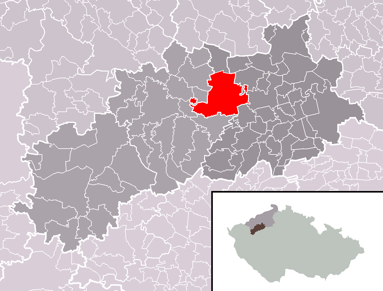 Location of Postoloprty town within Louny District and administrative area of Louny as a Municipality with Extended Competence.